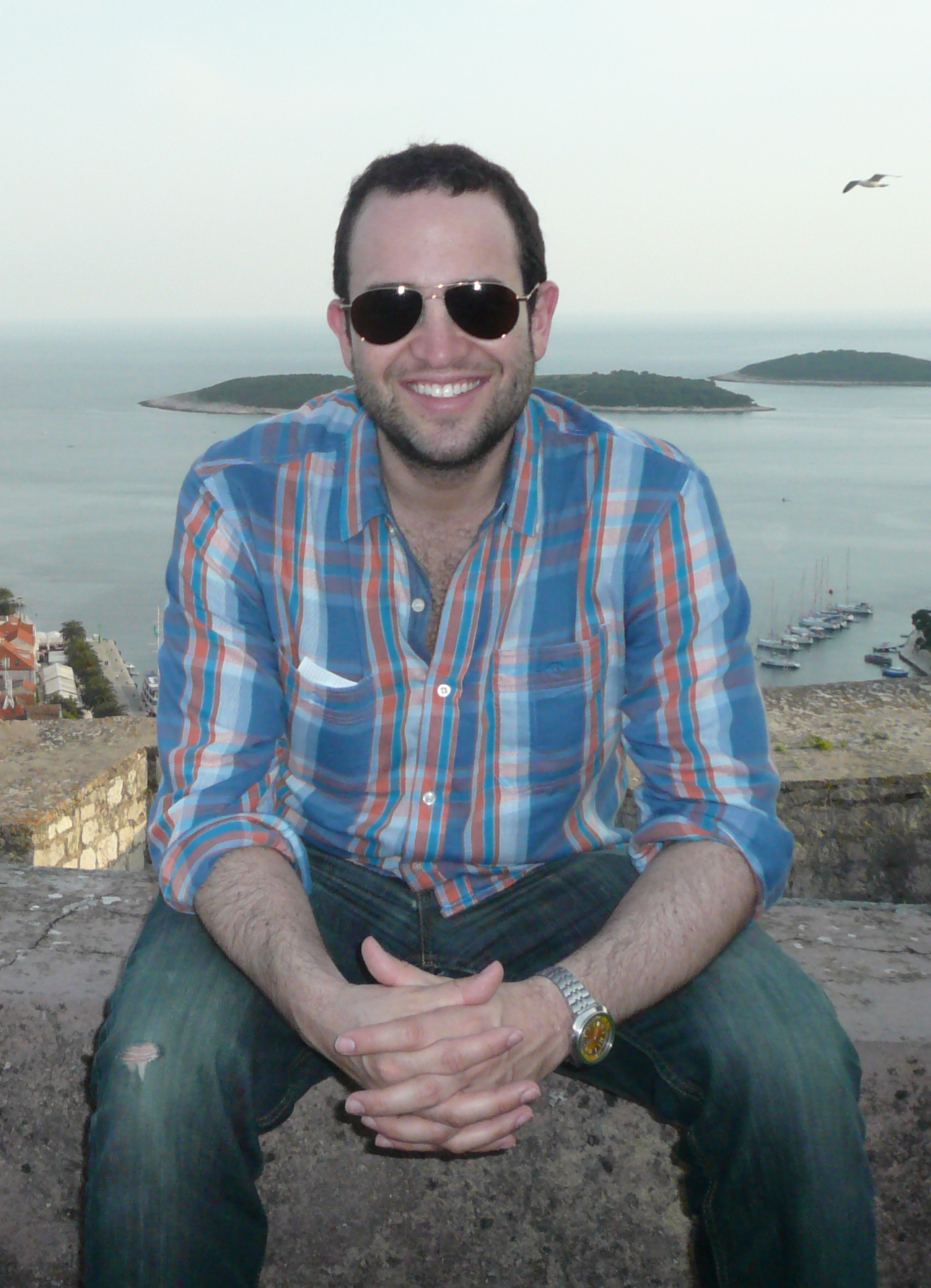 This is a headshot of author, copywriter, and speaker Alec Brownstein